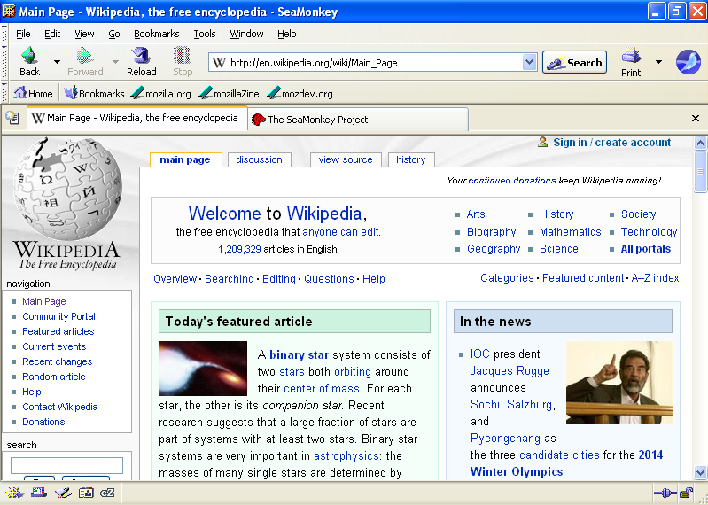 Screenshot of SeaMonkey 1.0.2 on Windows XP. I made this.